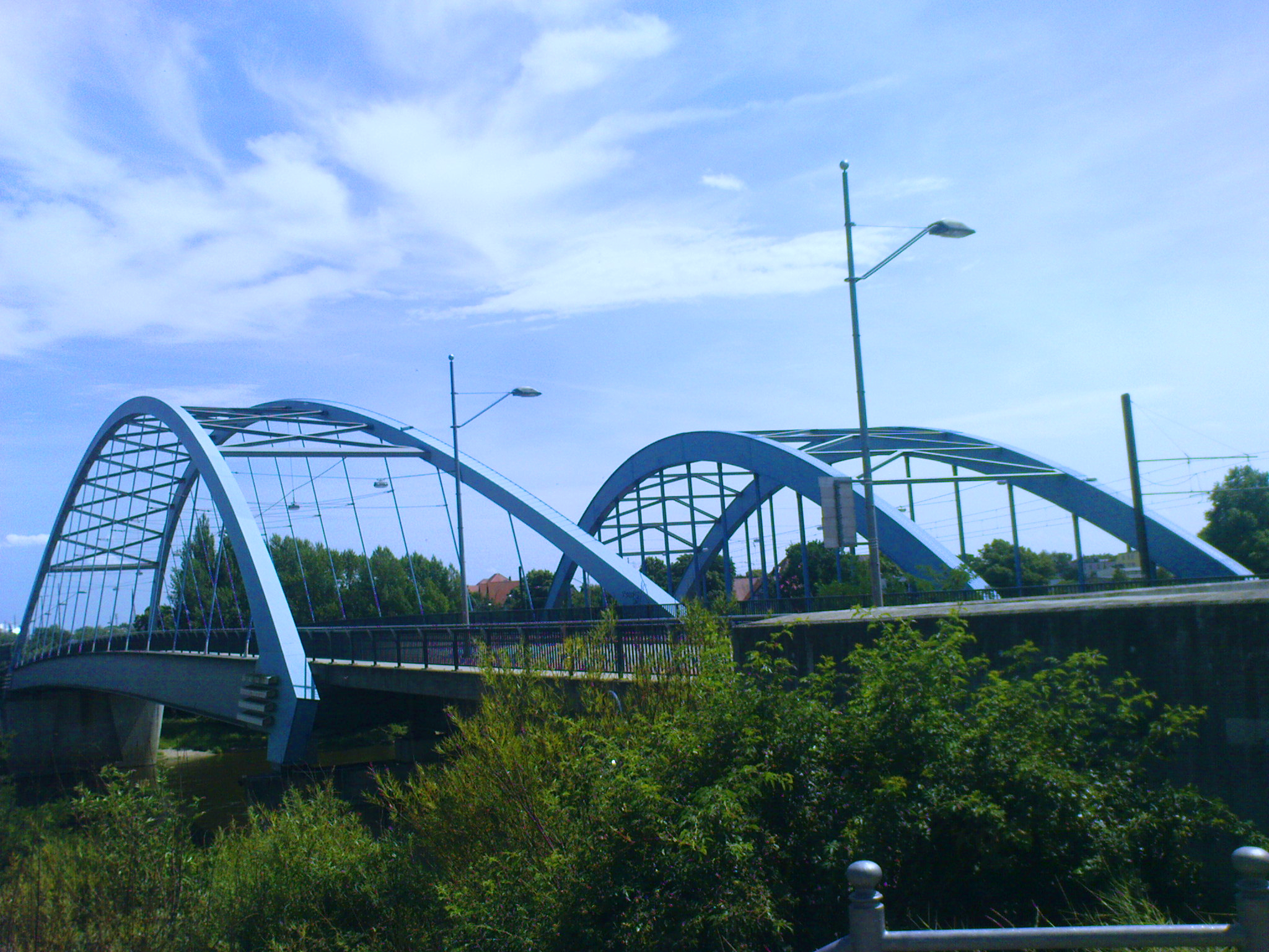 Jerusalem bridges Magdeburg